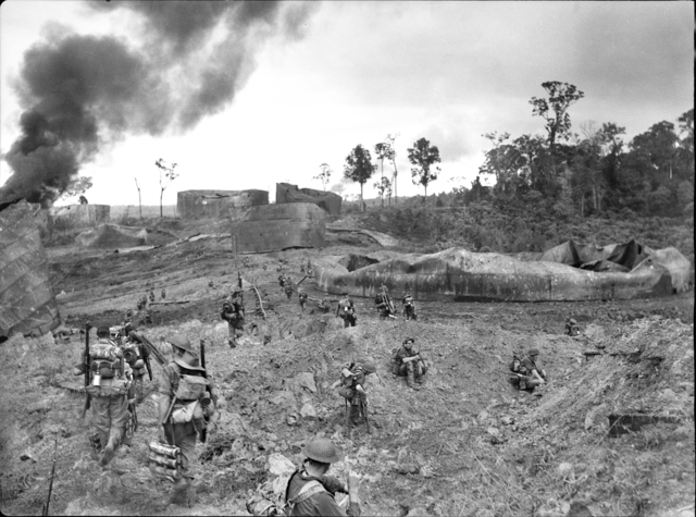 AWM photo caption: TARAKAN, BORNEO. 1945-05-01. A COMPANY, 2/23 INFANTRY BATTALION, ADVANCING THROUGH WRECKED OIL STORAGE TANKS AT TANK HILL.